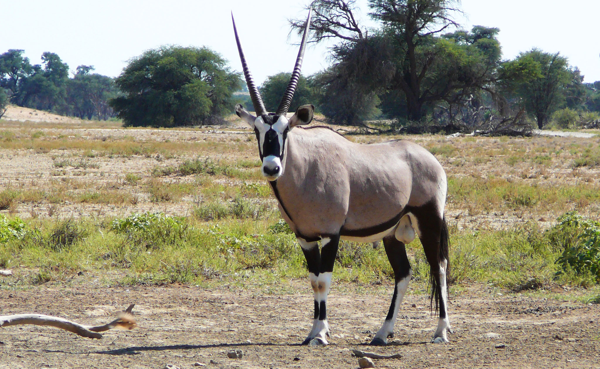 Gemsbok at Kgalagadi Transfrontier Park, Northern Cape, South Africa.